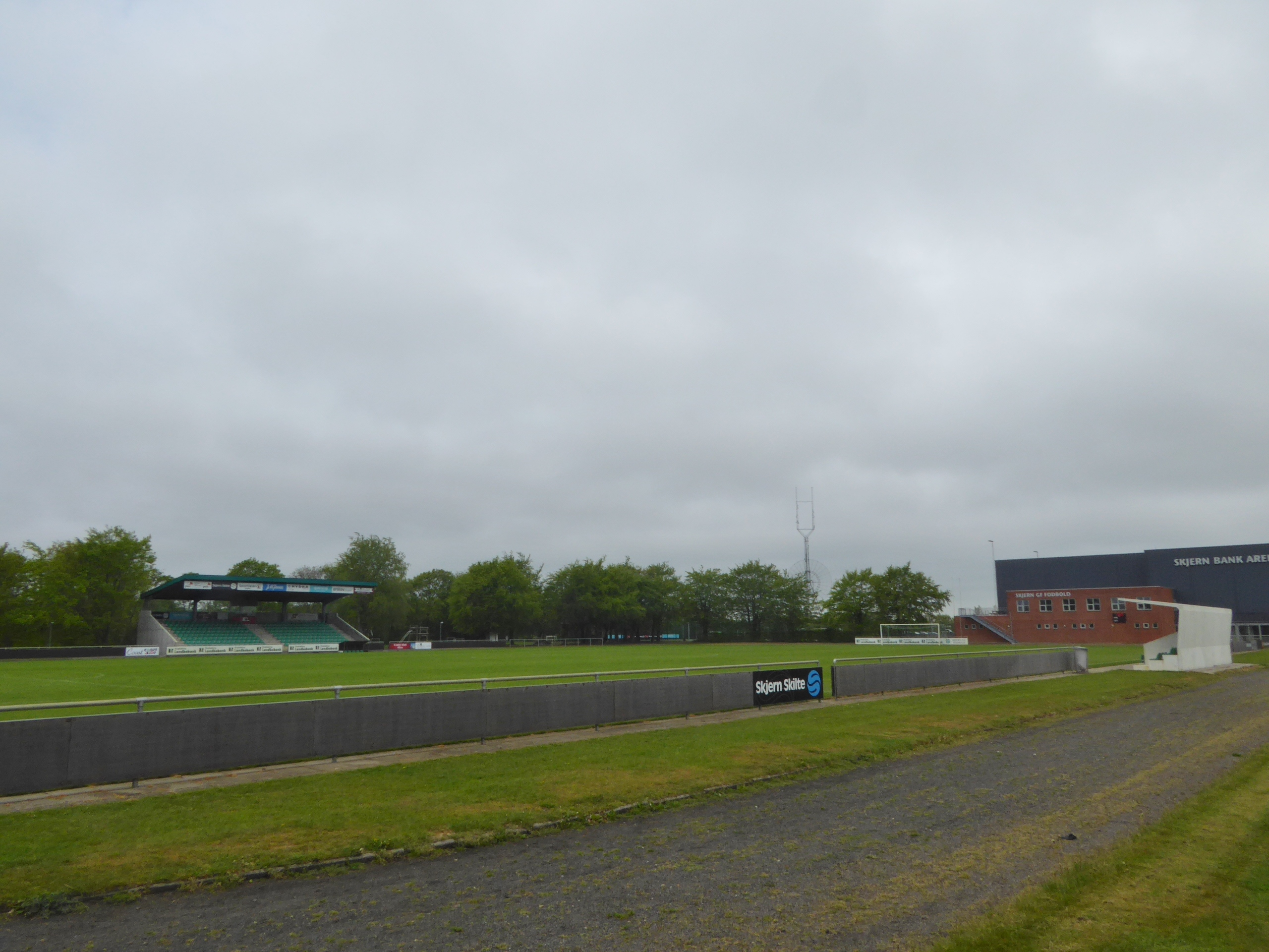 The main soccer field of Skjern Idrætspark in Skjern in Denmark.